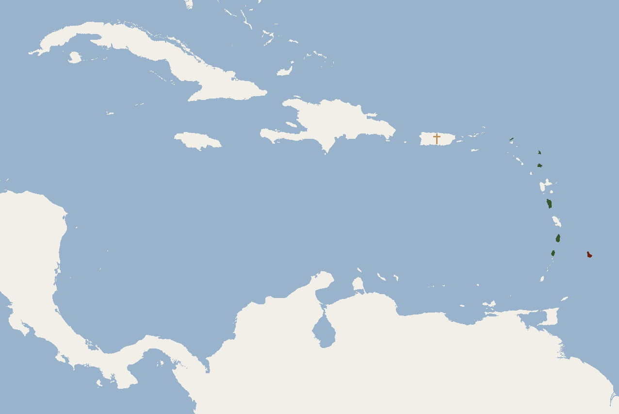 Geographical distridution of Monophyllus plethodon according to Museum specimens